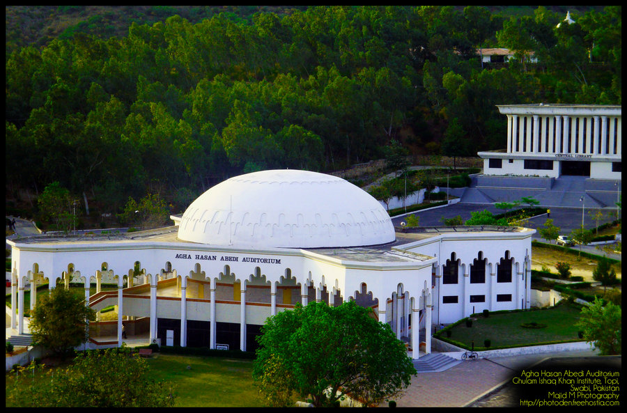 My University GIKI Topi swabi PAKISTAN